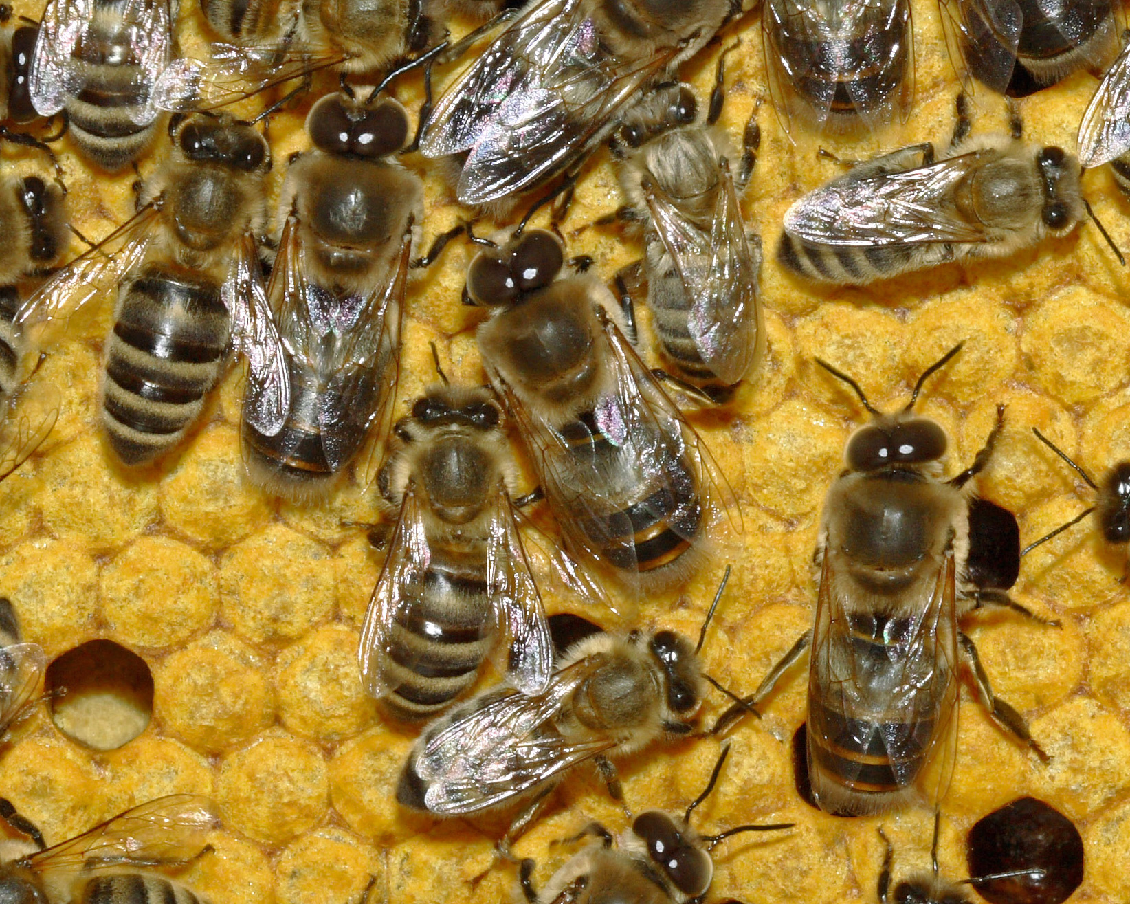 Bees and drones on a honeycomb